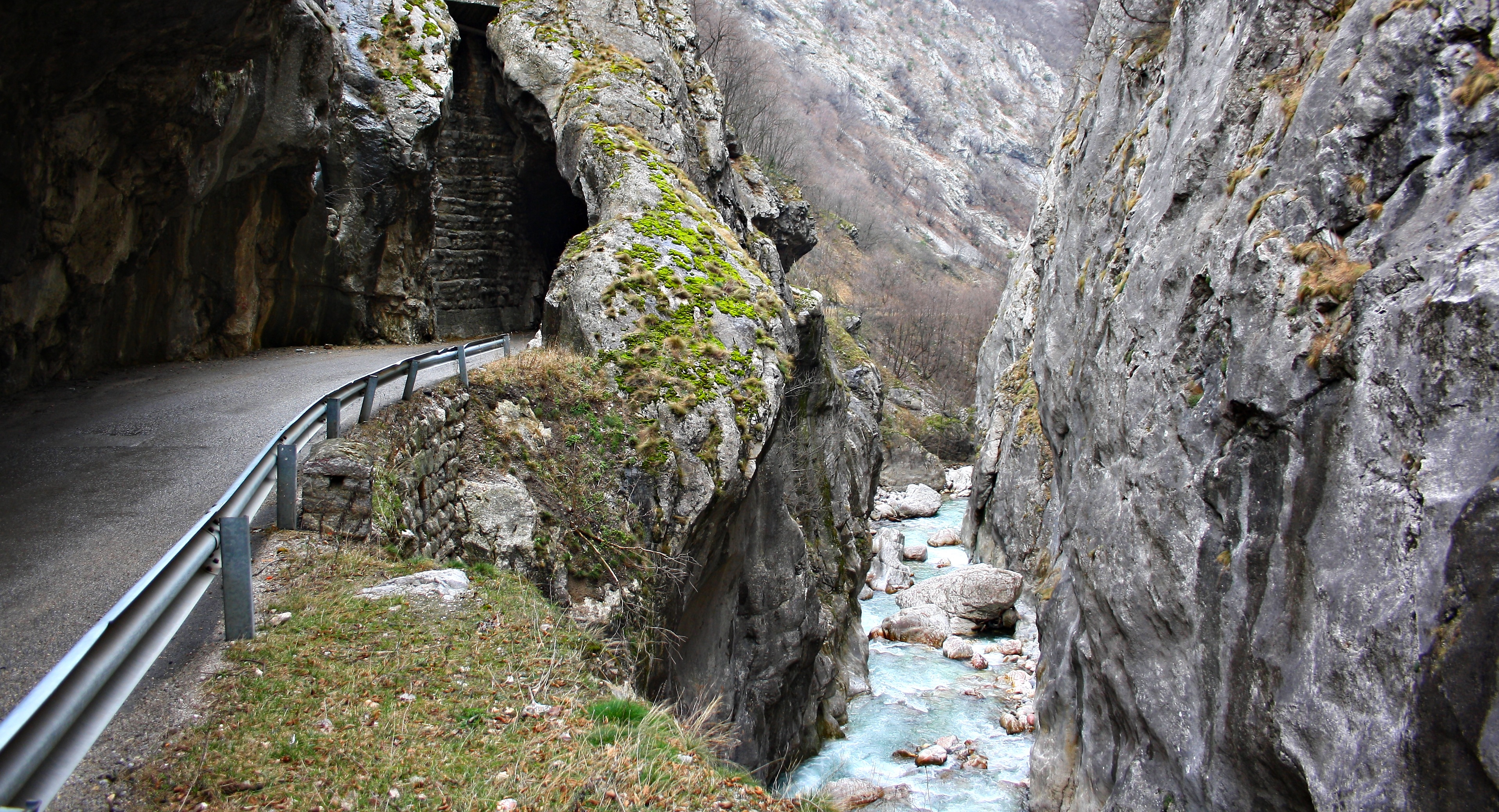 Rugova Mountains